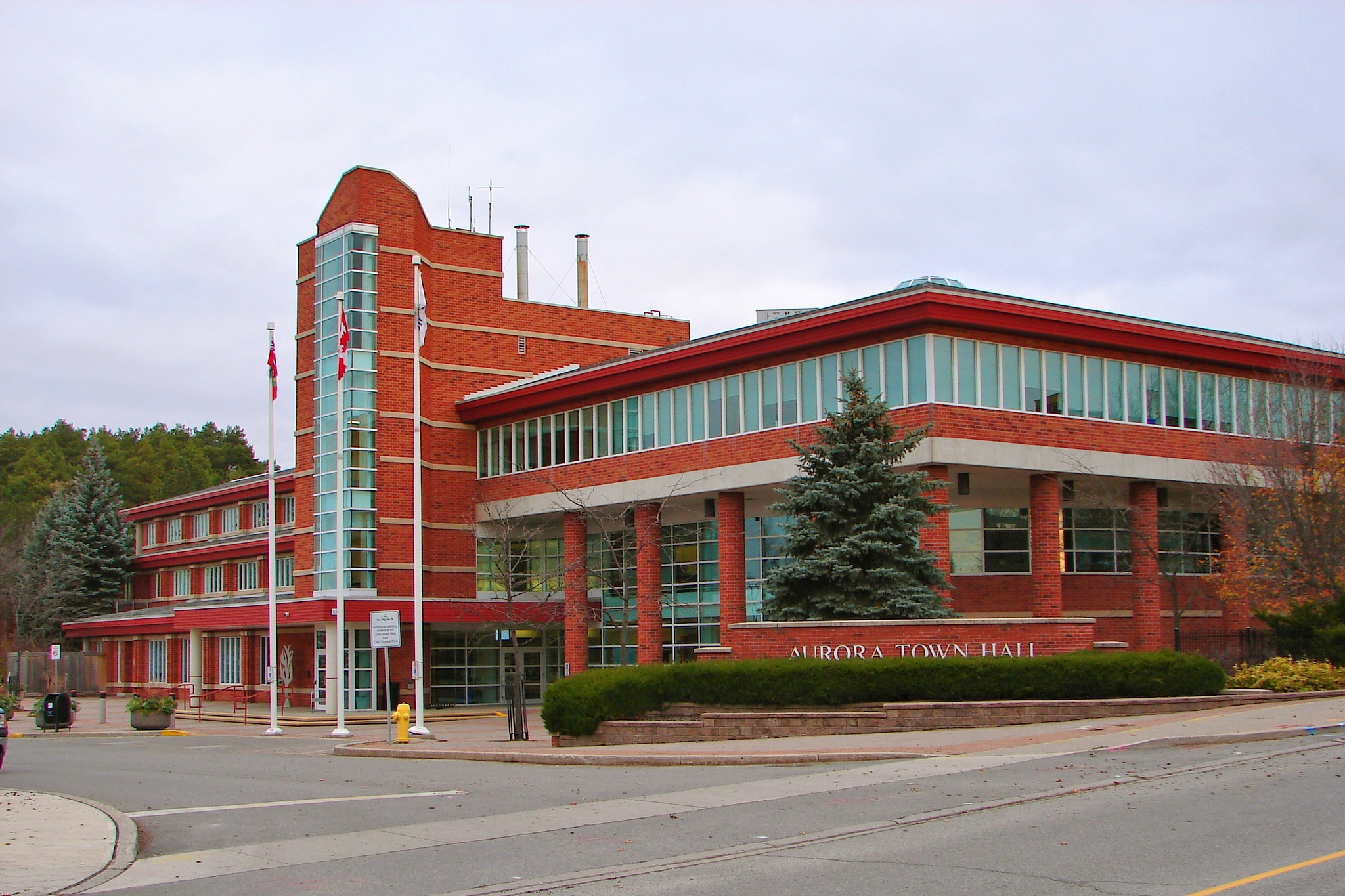 Town hall of Aurora, Ontario, Canada